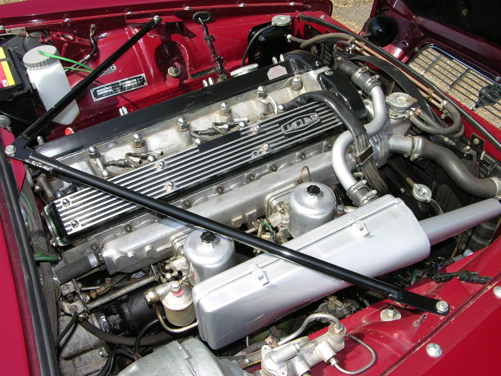 1970 Jaguar XJ6 4.2 Series 1